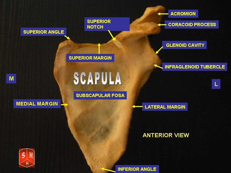 Anterior surface of scapula